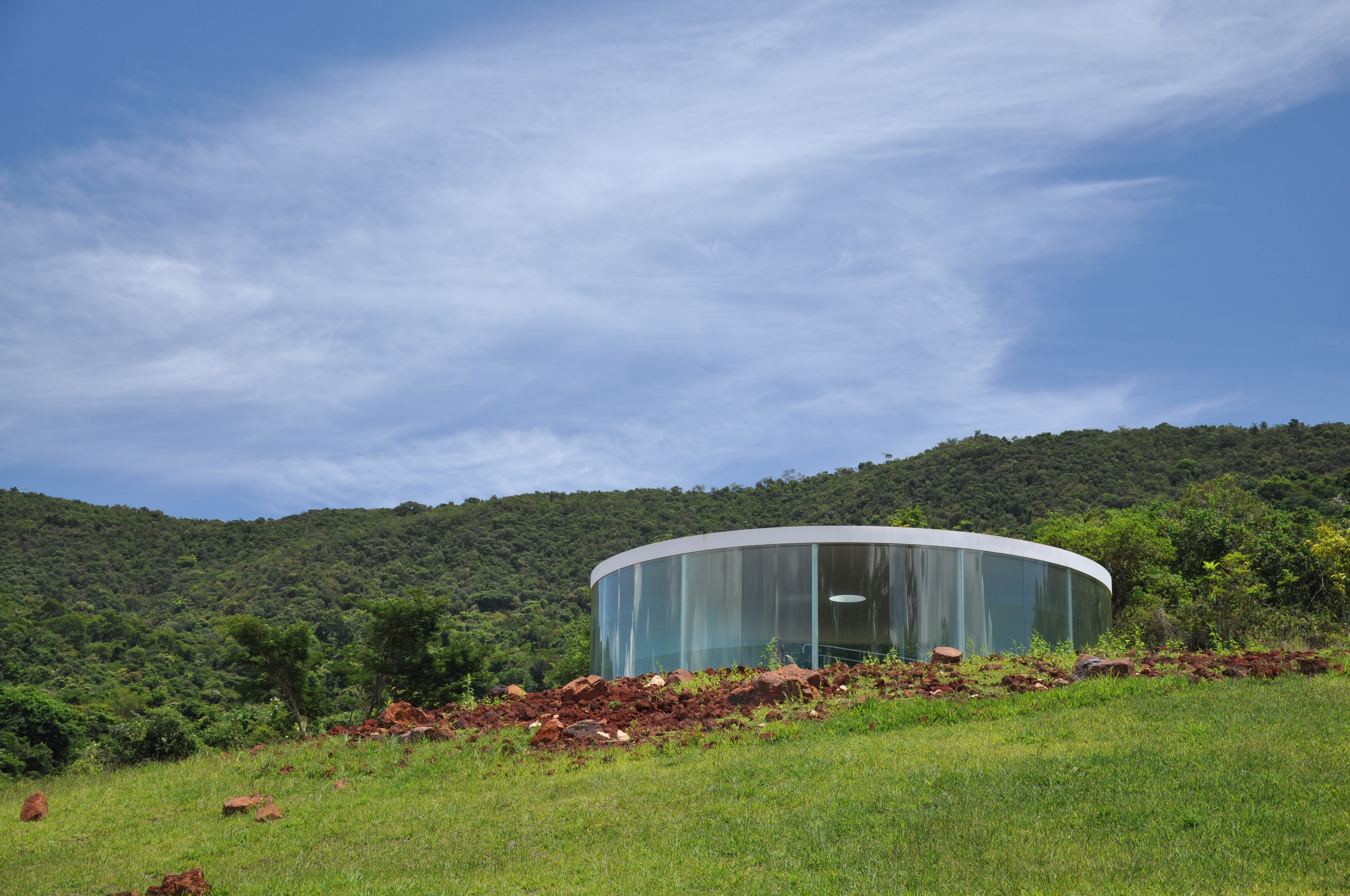 Doug Aitken with "Sonic Pavilion" (2009) at Instituto Cultural Inhotim in Brumadinho/Brazil